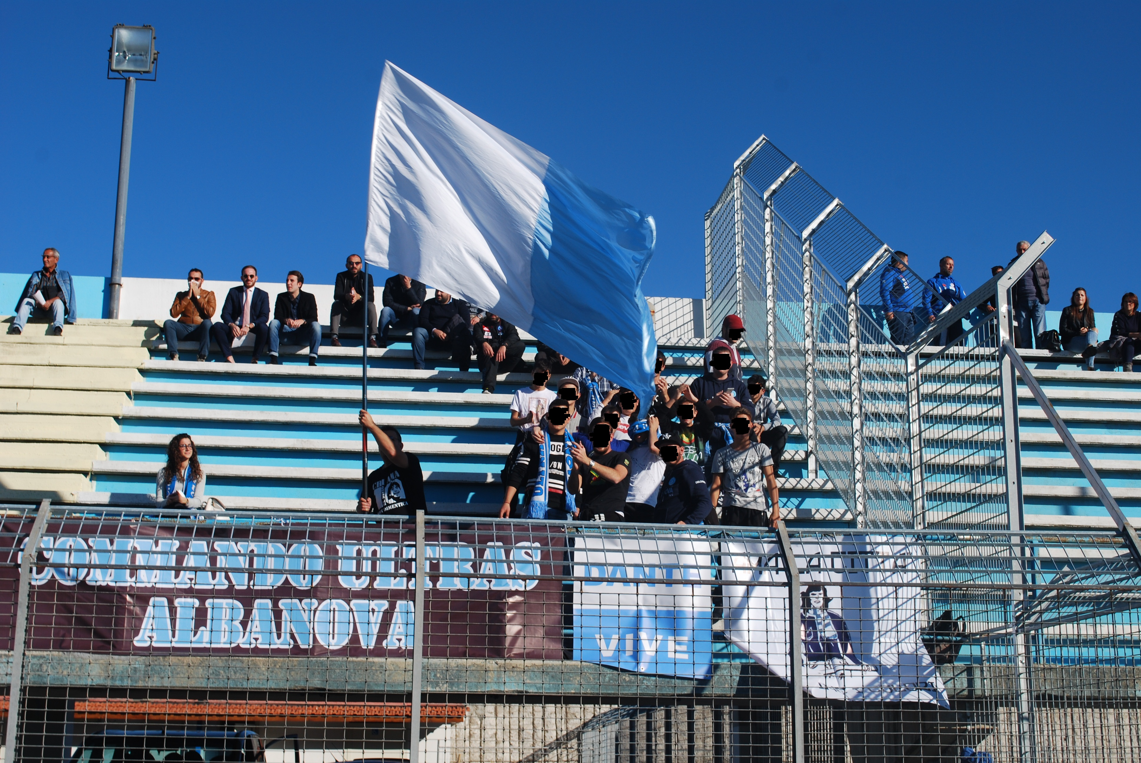 Commando Ultras Albanova nato nel 2015